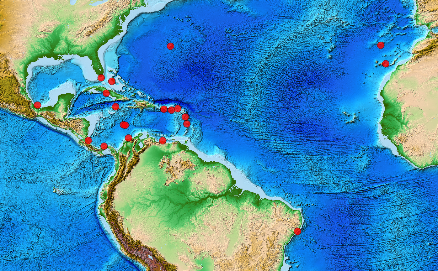 Distribution map of Pleurobranchus areolatus. Coordinates are only approximate. Layer: ETOPO1 Global Relief Model.